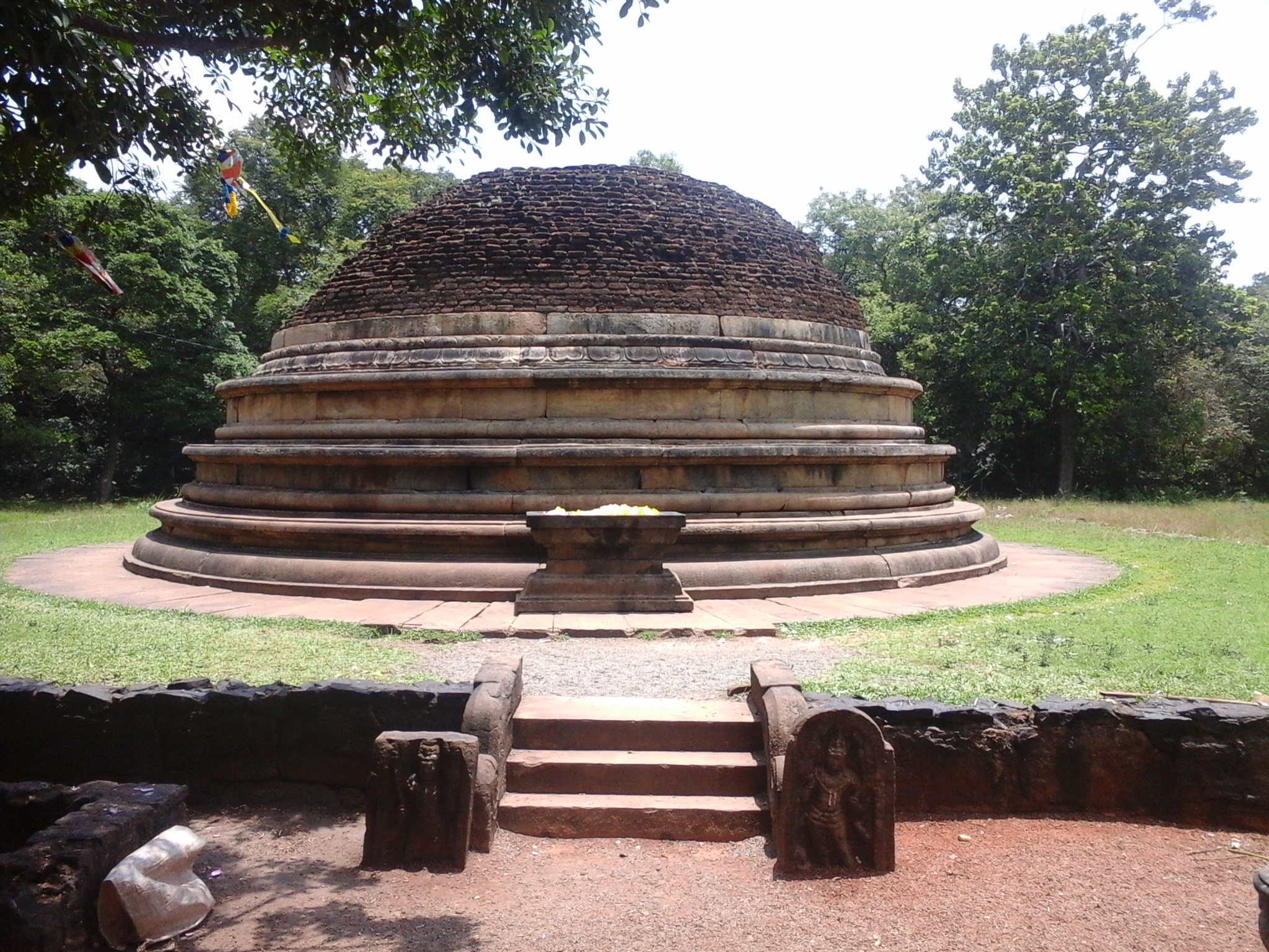 Katu seya (pagoda) at Mihintalaya shrine